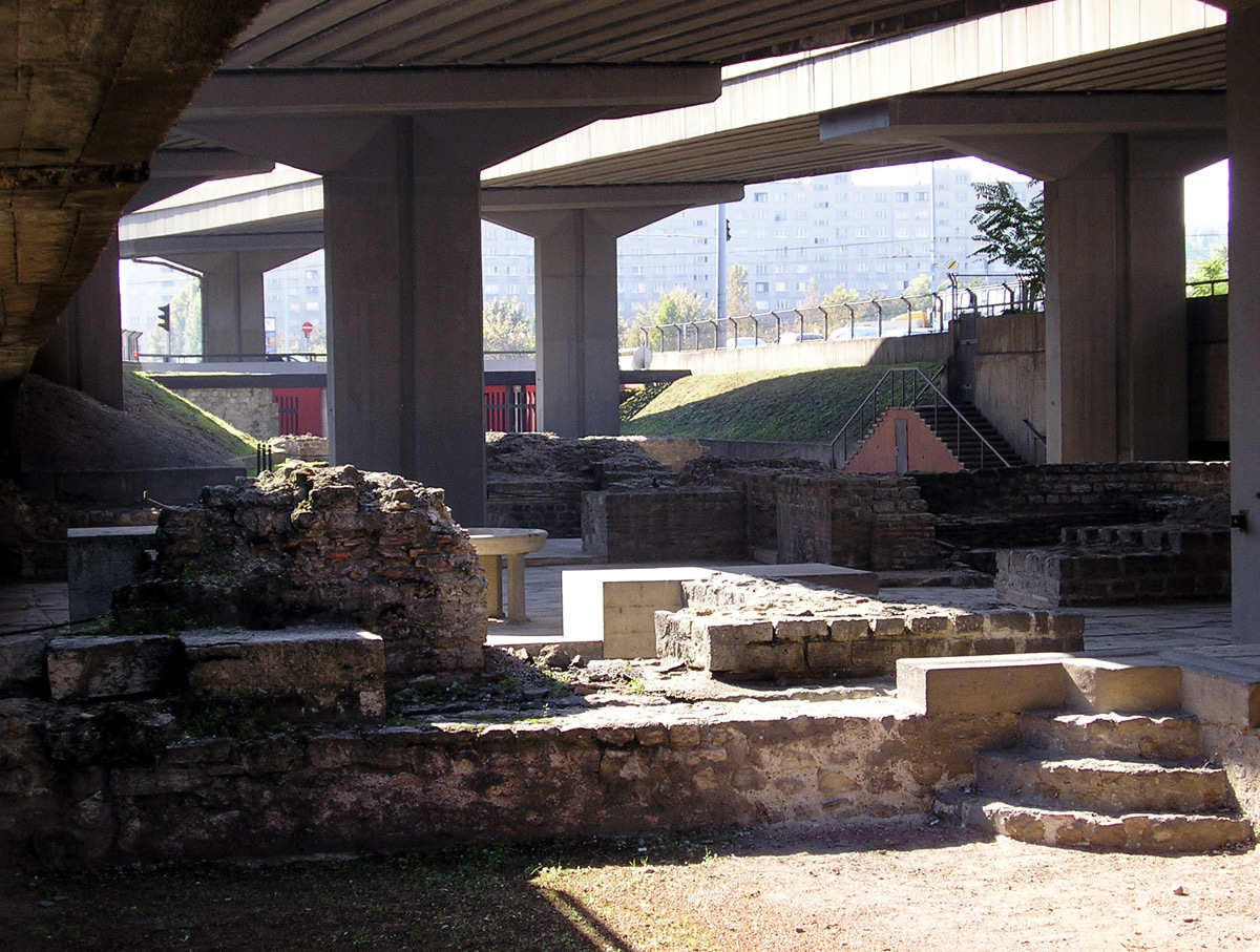 The great bath of the Roman legionary fortress in Budapest, Hungary.